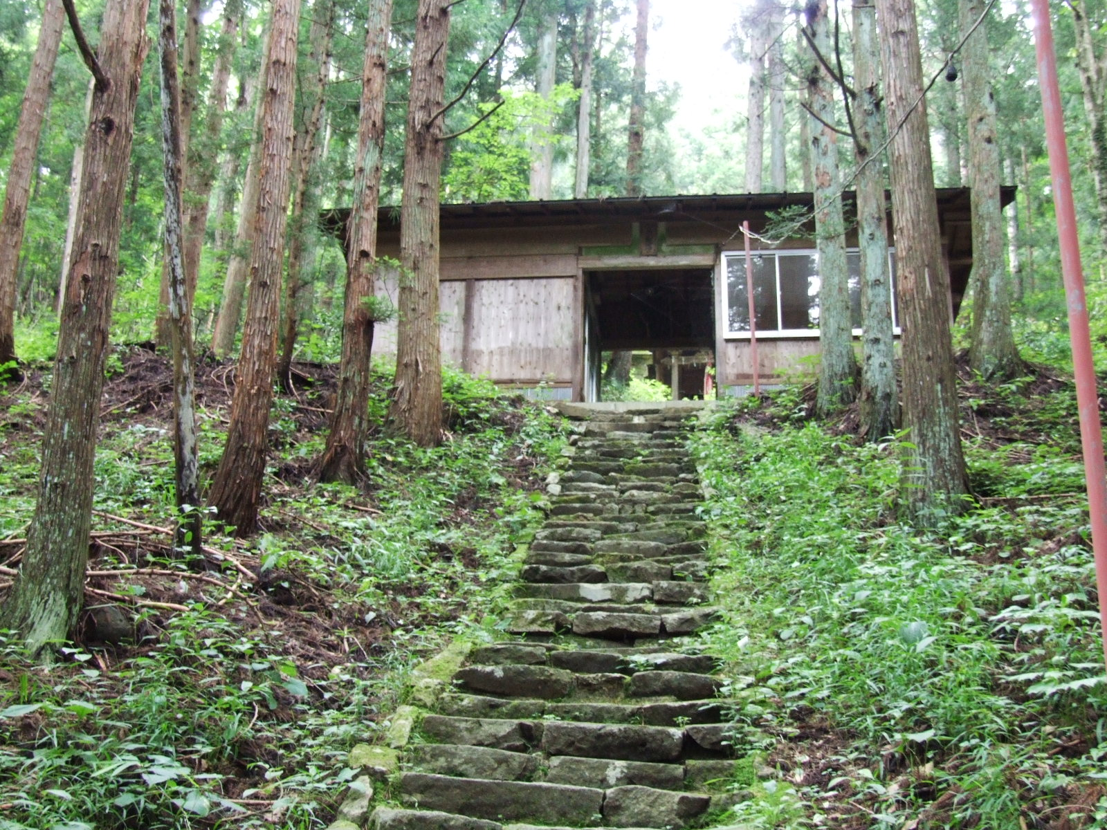 Stairs and Nagatoko of the Enryū shrine. Sendai, Miyagi prefecture, Japan.